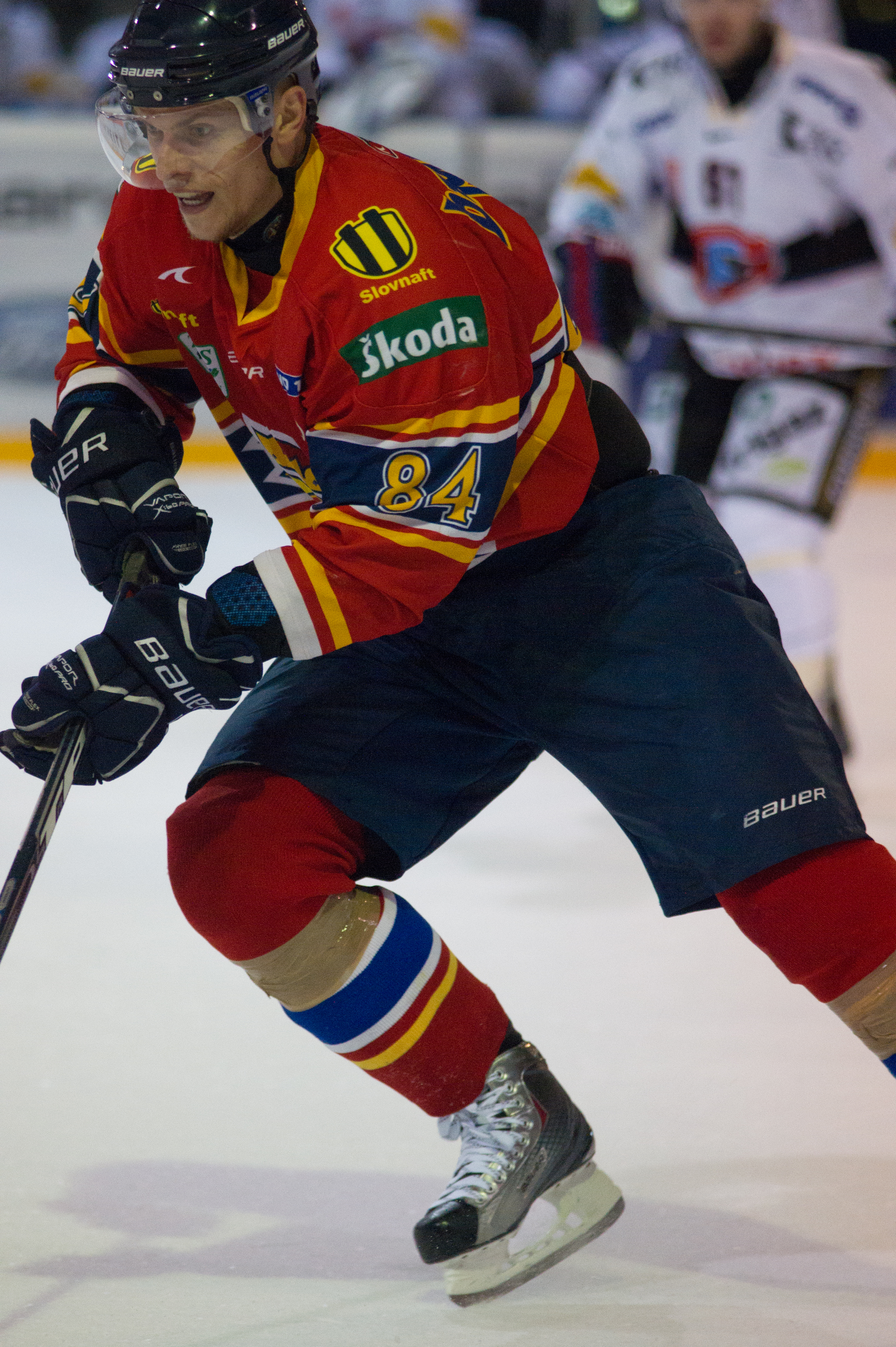 Festyvhockey 2010, Yverdon-les-Bains.